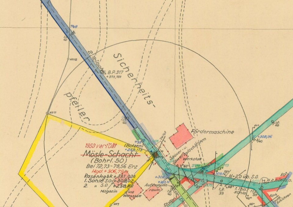 Map of Schoenberg ore mine, Freiburg im Breisgau, Baden-Württemberg, Germany.